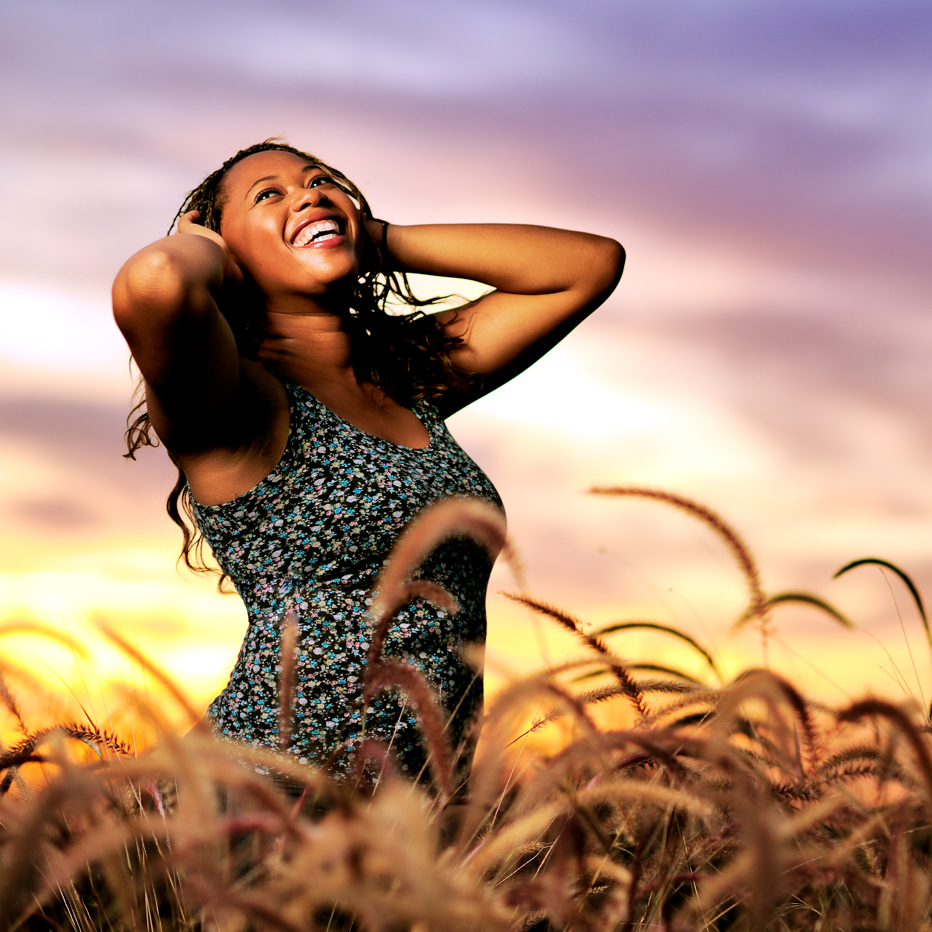 Model standing in a field during sunset. Photographed with a Nikon D700. Settings: 1/250 ƒ/2 85mm. Strobist Info: SB-900 with 1/4 CTO @ 1/8th Power in a 43" RPS Studio Brolly Camera Left, triggered via Pocket Wizards